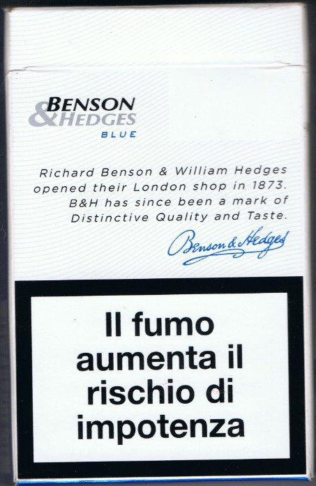 Benson & Hedges Blue